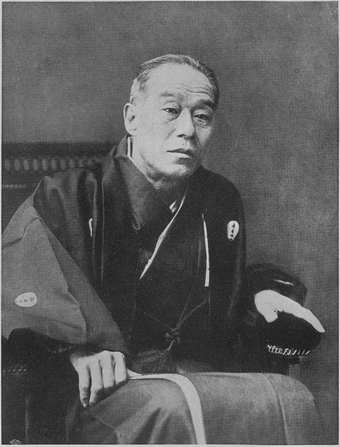 Fukuzawa Yukichi, 1900s